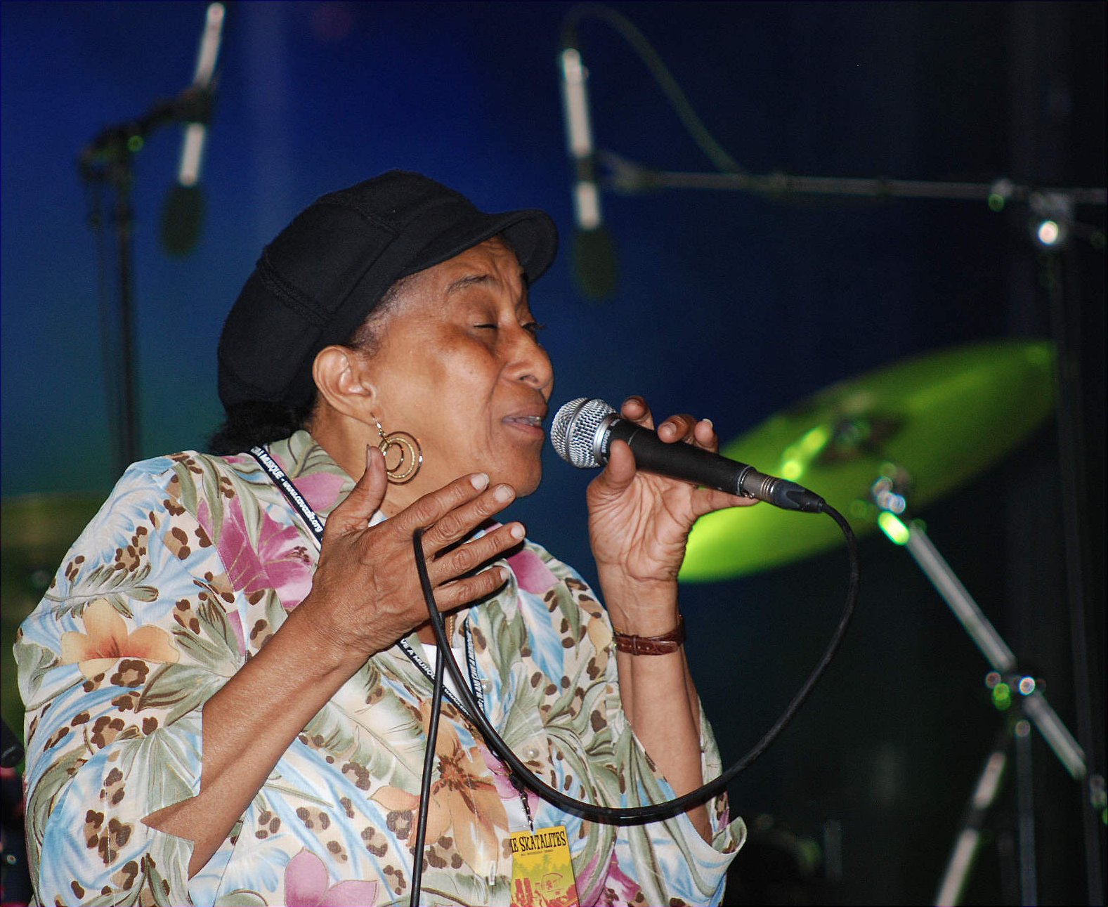 doreen shaffer in concert with skatalites in France : Mâcon august 2008